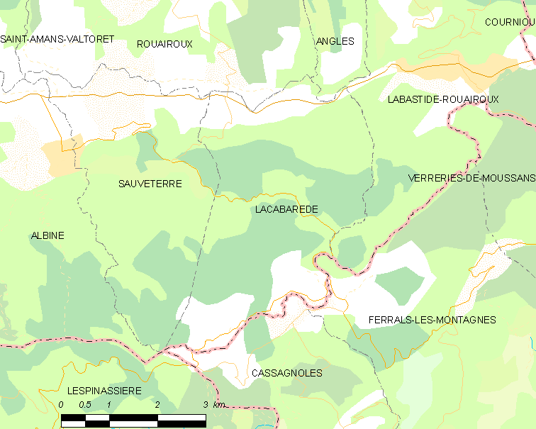 Map commune FR insee code 81121.png - Lacabarède